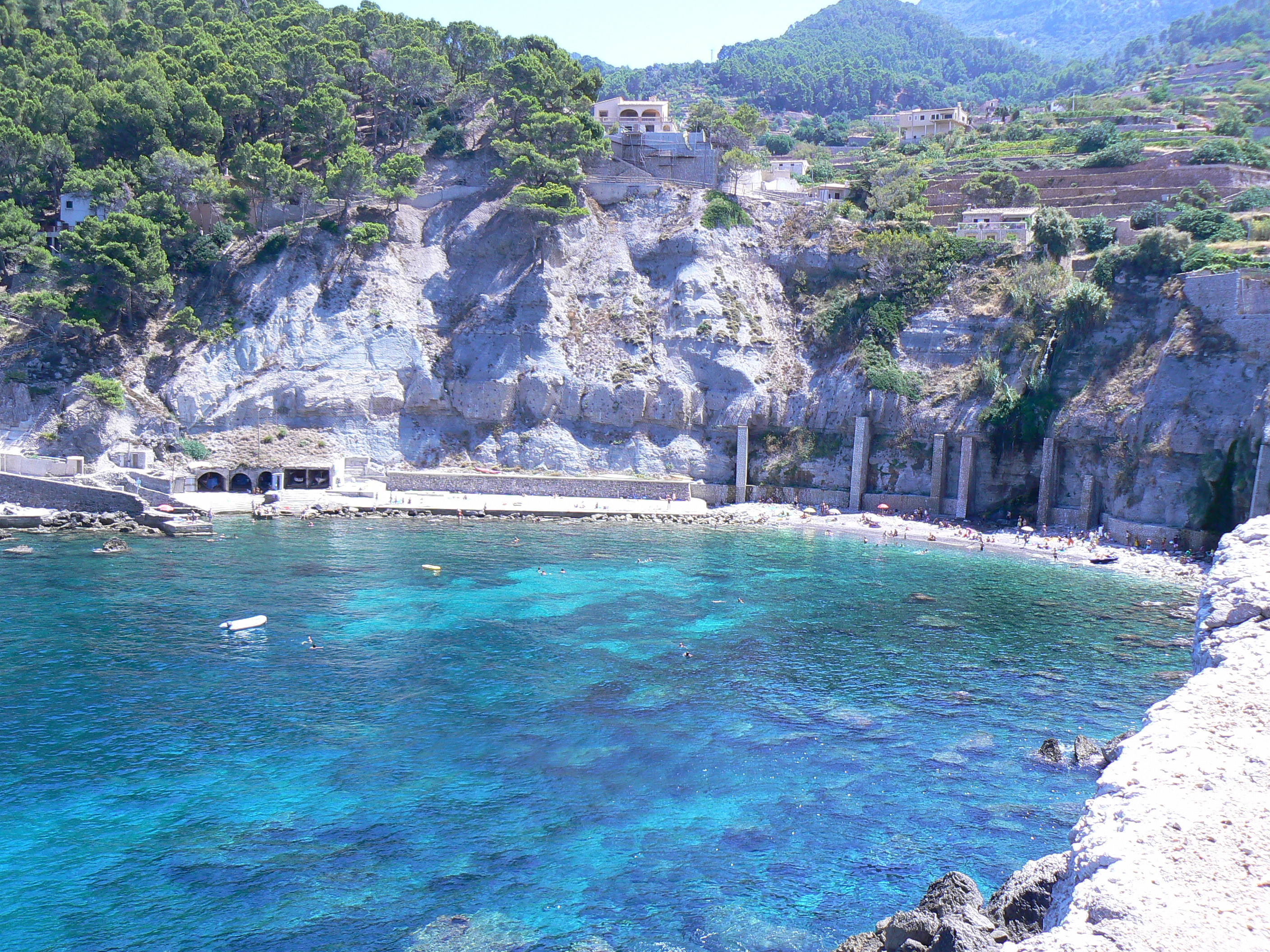 Vista panorámica de Cala Banyalbufar